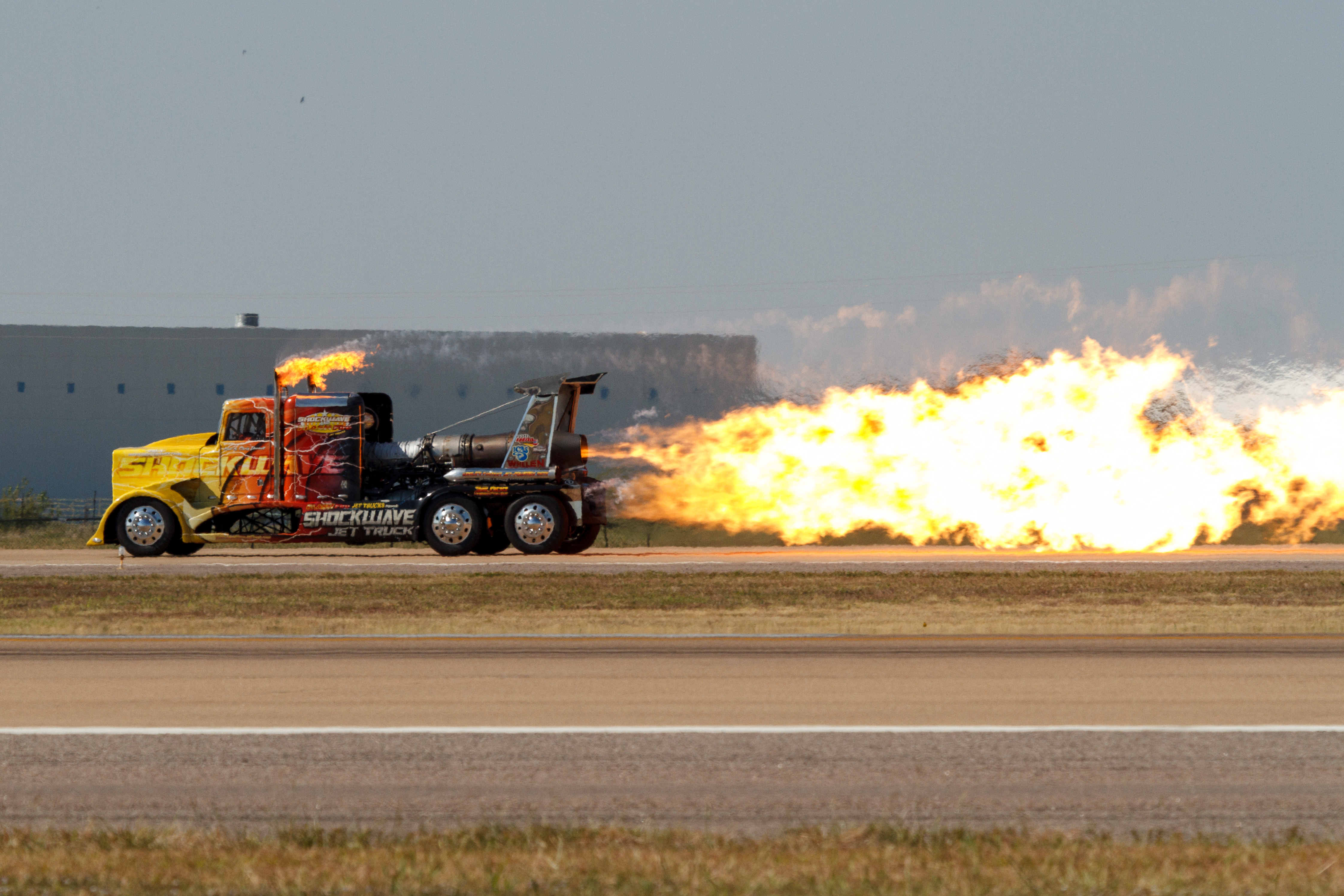 The Shockwave Truck performing at the Alliance Air Show in Fort Worth, Texas in 2014.